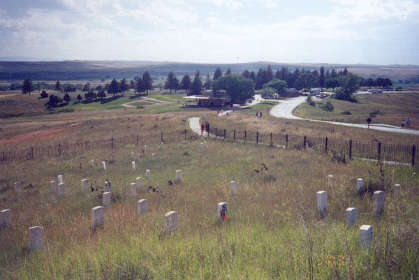 Little Bighorn cemetery overview by Durwood Brandon.